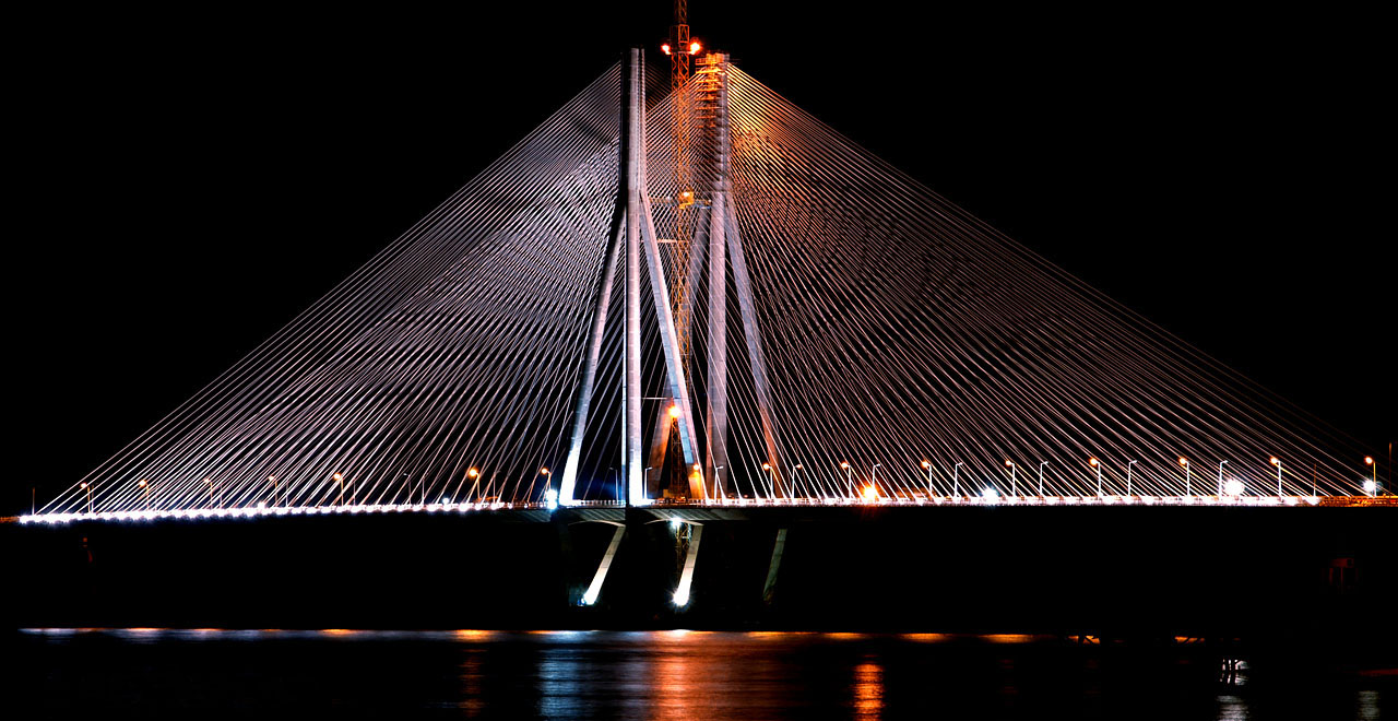 See the beautiful full size